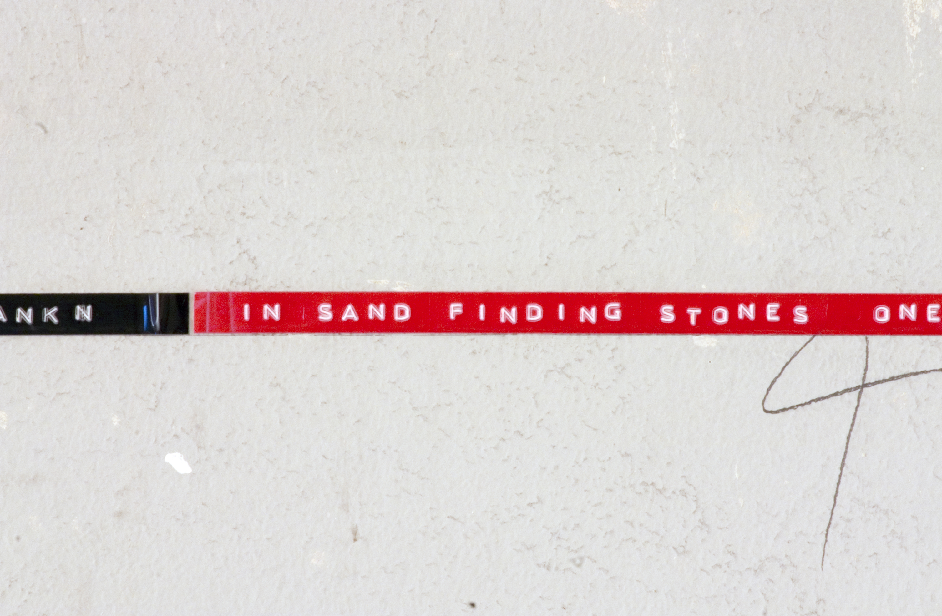 A poem by Rick Holland, embossed onto Dymo tape. Installation with Brian Eno, Marlborough House, London, 2010.